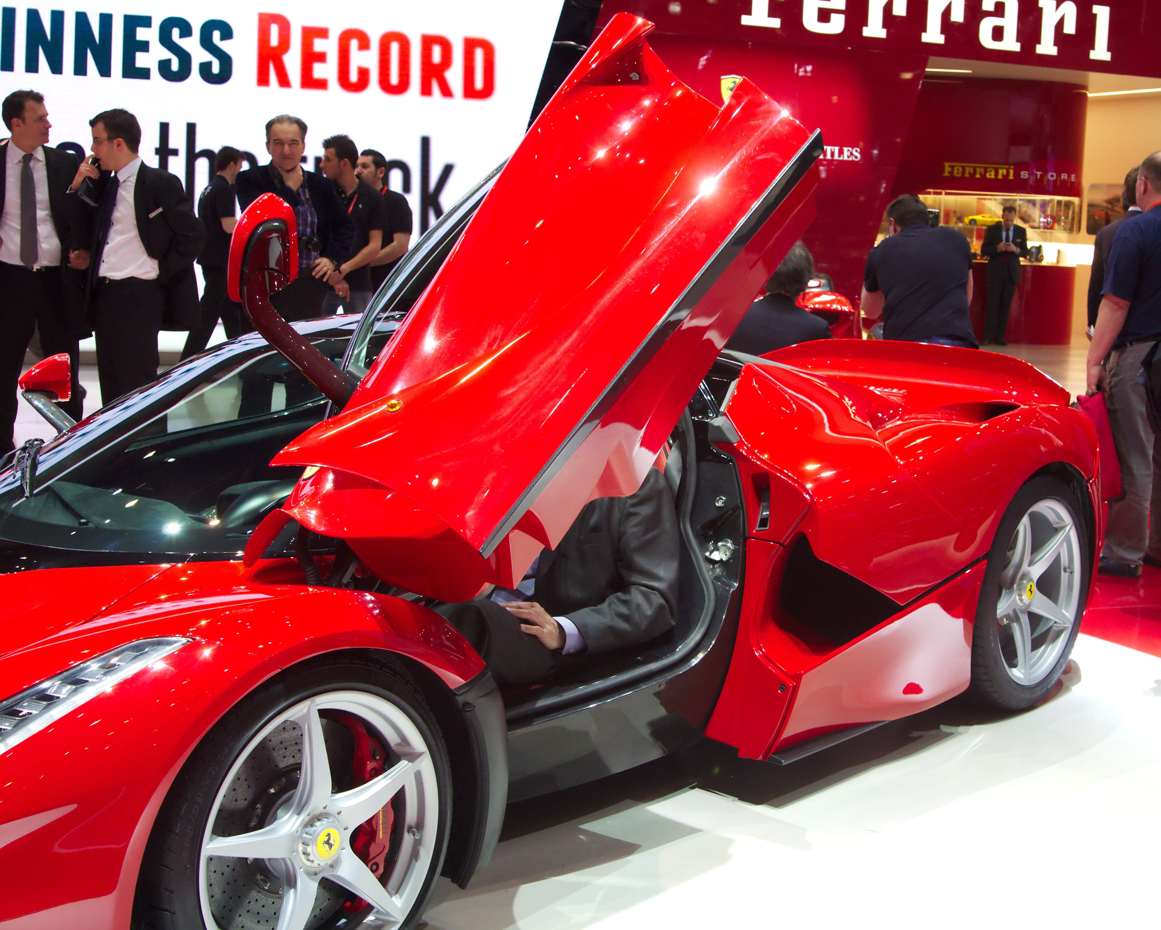 Geneva MotorShow 2013 - Ferrari LaFerrari opened door